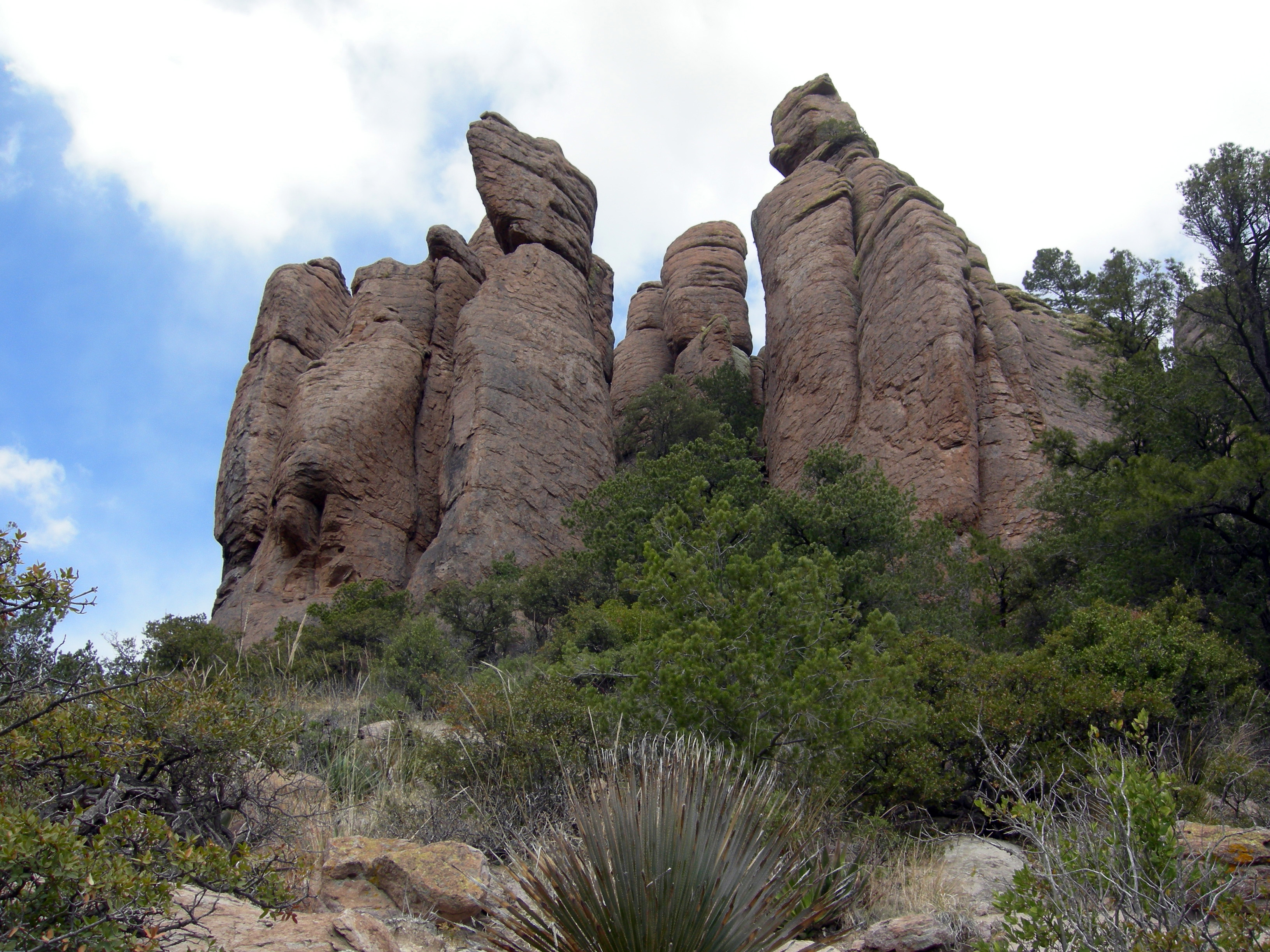 Hoodoos of rhyolite in Chiricahua National Monument, southeastern Arizona. Trees in center are Pinus discolor